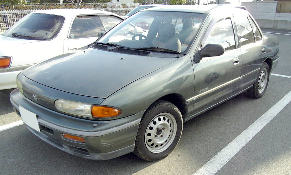 1990-1993 Isuzu Gemini (JT151) sedan.